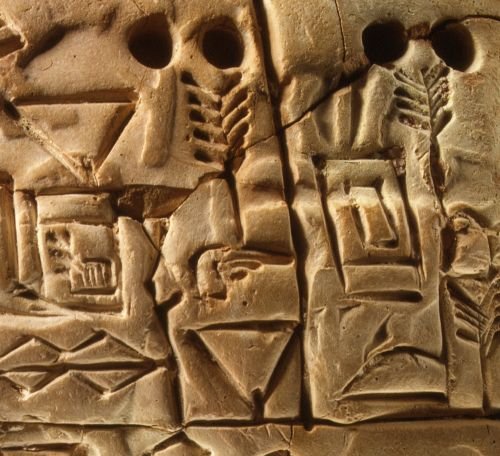 Detail of this image. Administrative tablet, Jamdat Nasr period 3100–2900 BC, probably from the city of Uruk.